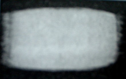 Hand cotton staple